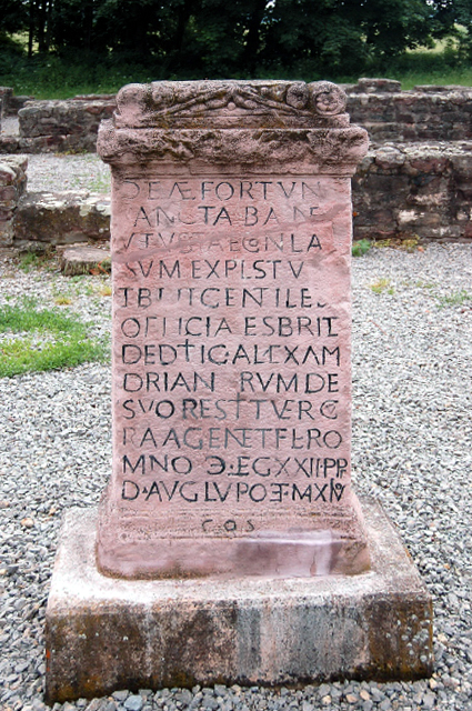 Germany / Town of Walldürn, Roman bath